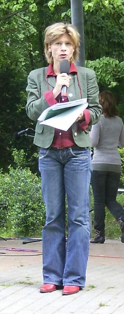 Dutch actress Hester Macrander at the Gelderland Poetry Festival at Oosterbeek